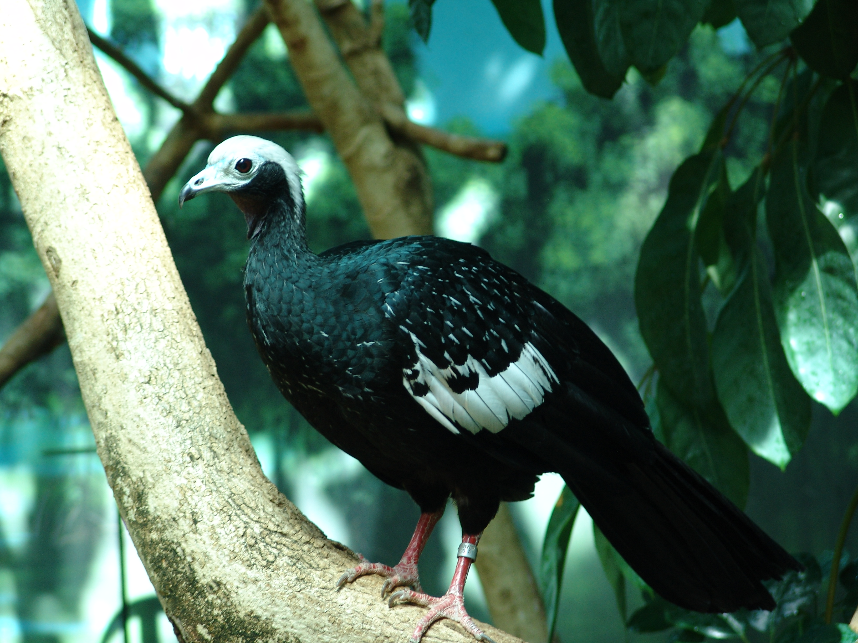 Blue-throated Piping Guan Pipile cumanensis (syn. Aburria cumanensis) in Denver Zoo. Was considered a subspecies of Pipile pipile in the past.